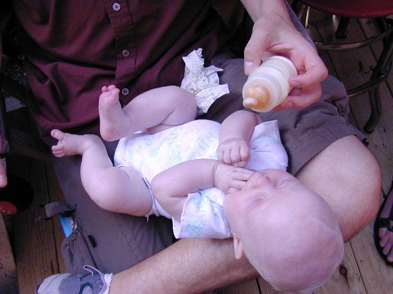 A baby having milk from a bottle.